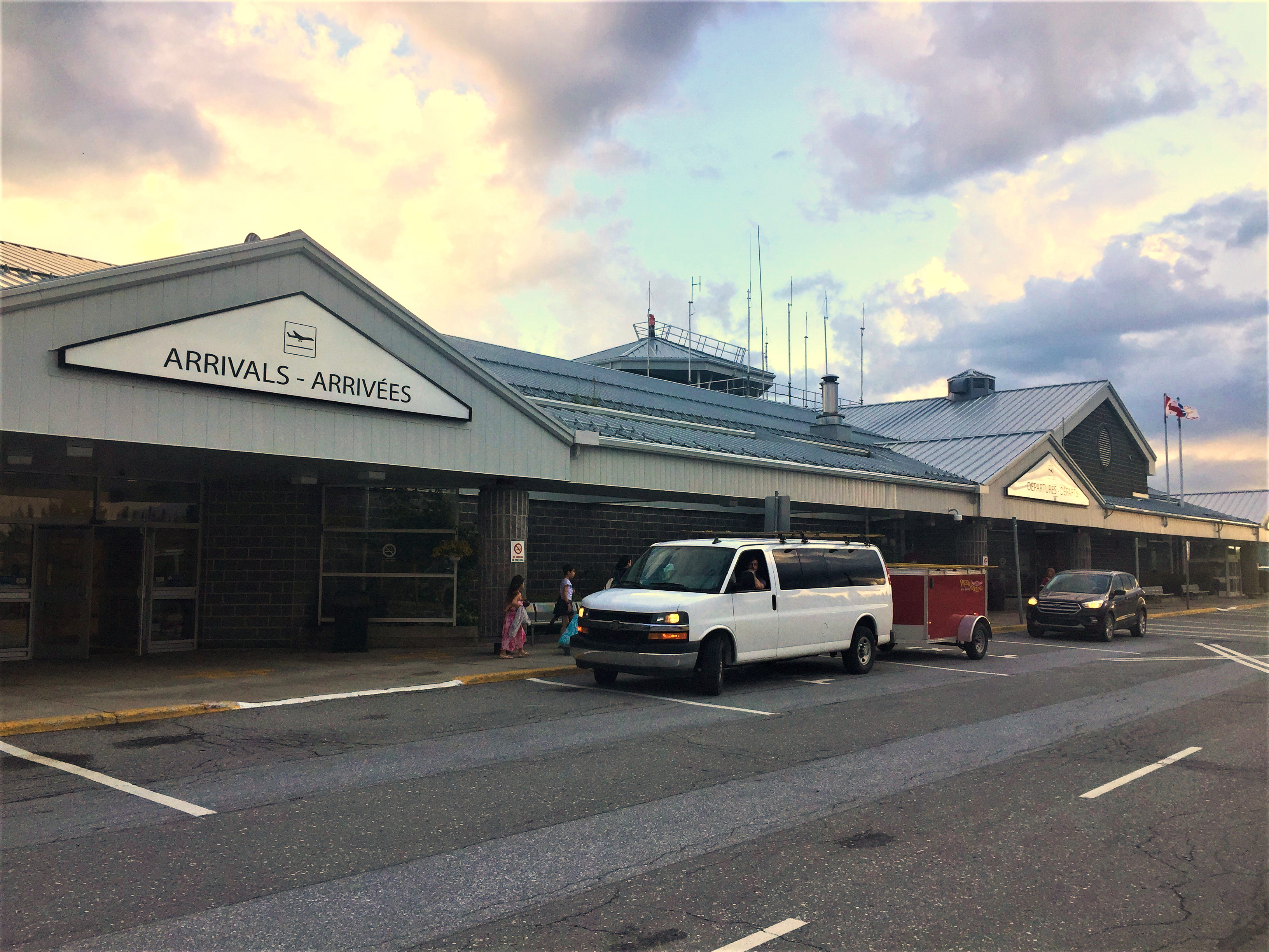 Deer Lake Airport, Newfoundland, Canada